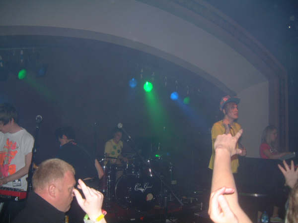 Picture of the band playing at the Classic Grand in Glasgow, 2007.